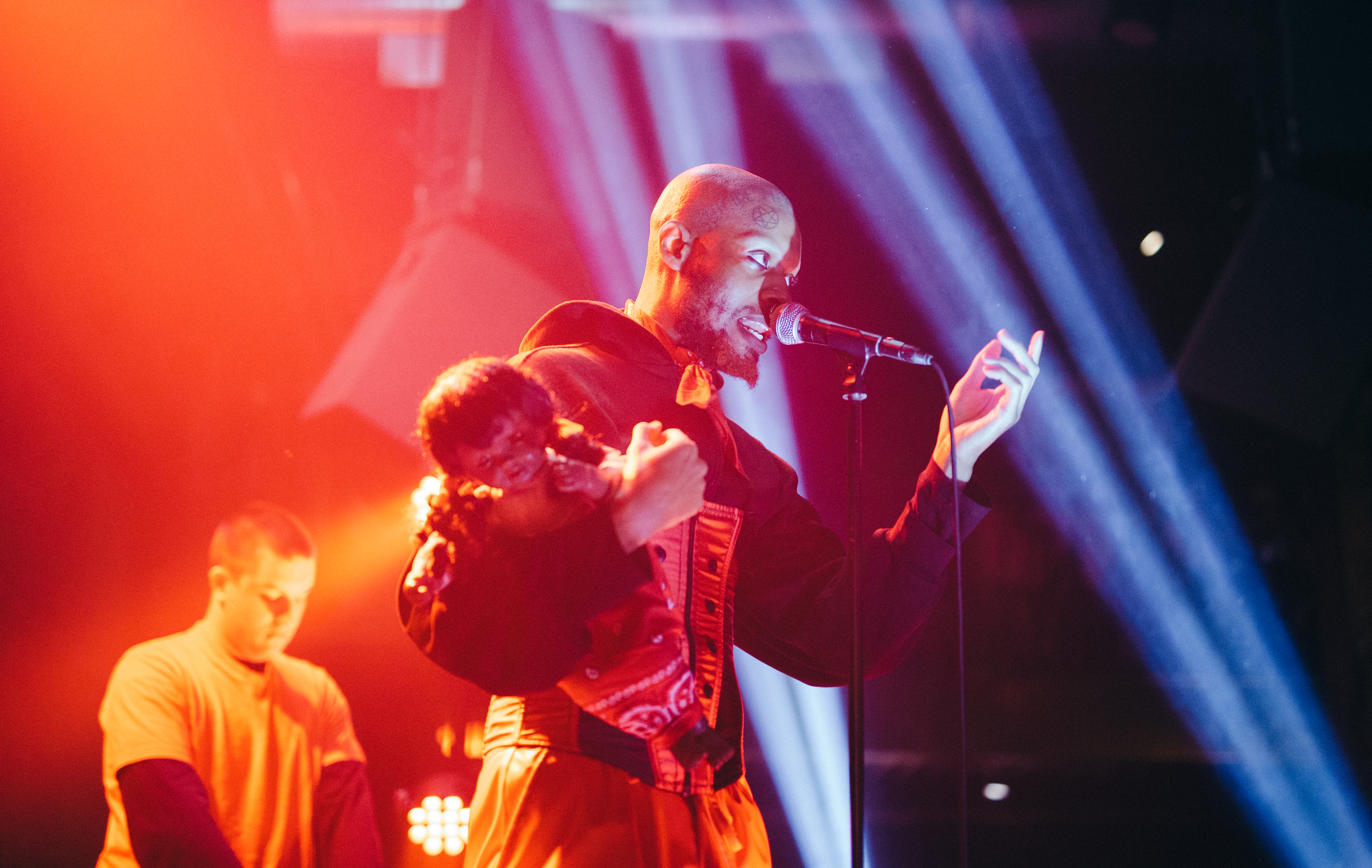 Serpentwithfeet - Icehouse - Minneapolis, MN - 2017/03/26